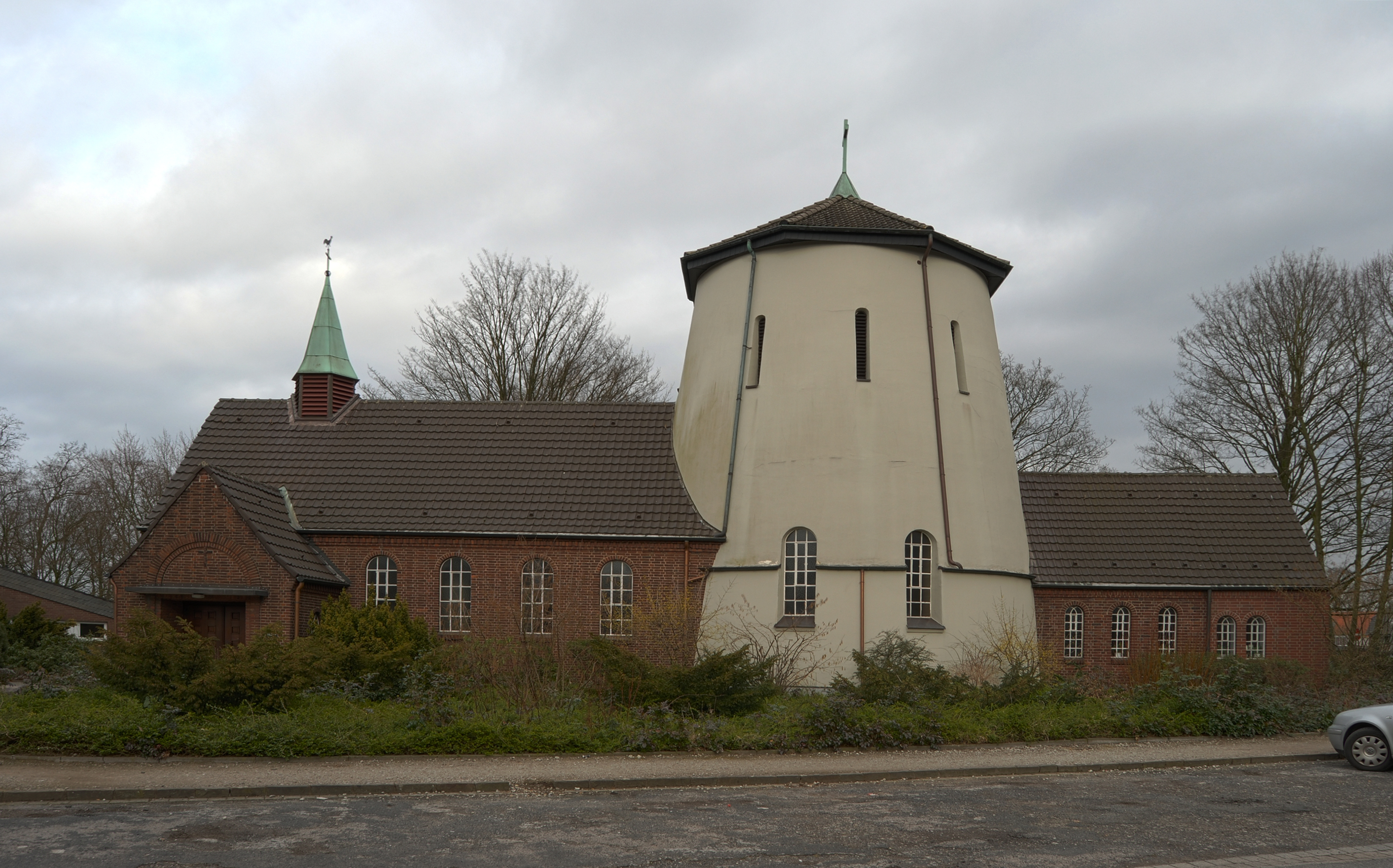 Rheinberg (North Rhine-Westphalia, Germany) – district Budberg – Catholic Saint Mary's Church (HDR image) This photograph was taken with a Nikon D3000.